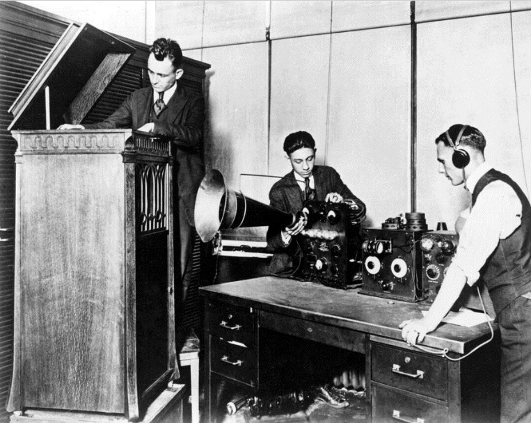 Photograph of preparations for a broadcast by radio station 8MK, the "Detroit News Radiophone" station, from August 1920. The three individuals are, from left-to-right: Howard J. Trumbo, manager of the local Thomas A. Edison Record Shop, operating a phonograph player; Elton M. Plant, Detroit News employee and announcer, behind 8MK's DeForest OT-10 radio transmitter; and engineer Frank Edwards. (According to Plant's 1989 "Radio's First Broadcaster", page 13, "some publications of the photo name the engineer as Keith Bernard, not so he was a later engineer".)